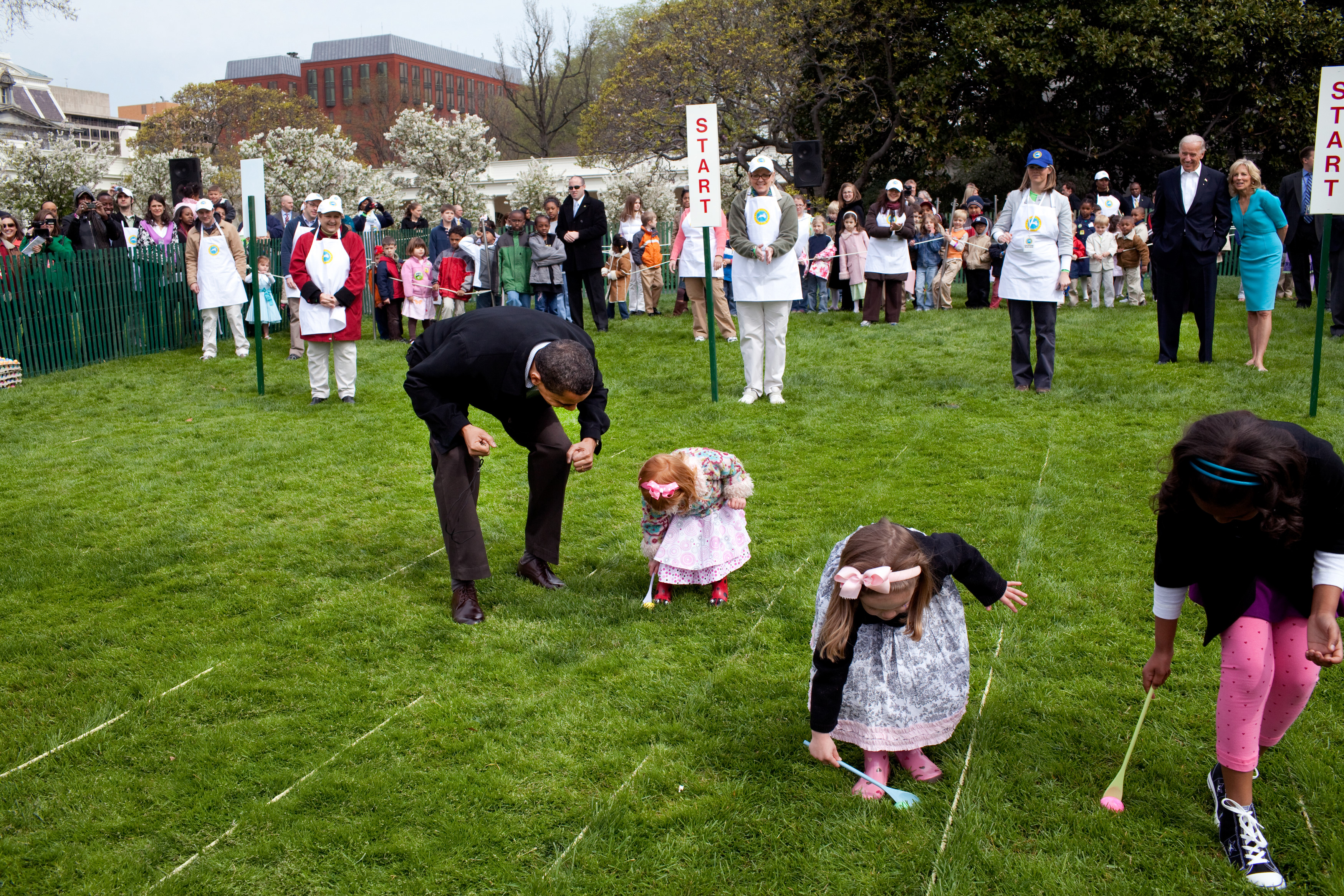 President Barack Obama cheers on a young child as she rolls her egg toward the finish line Monday, April 13, 2009, during the White House Easter Egg Roll.